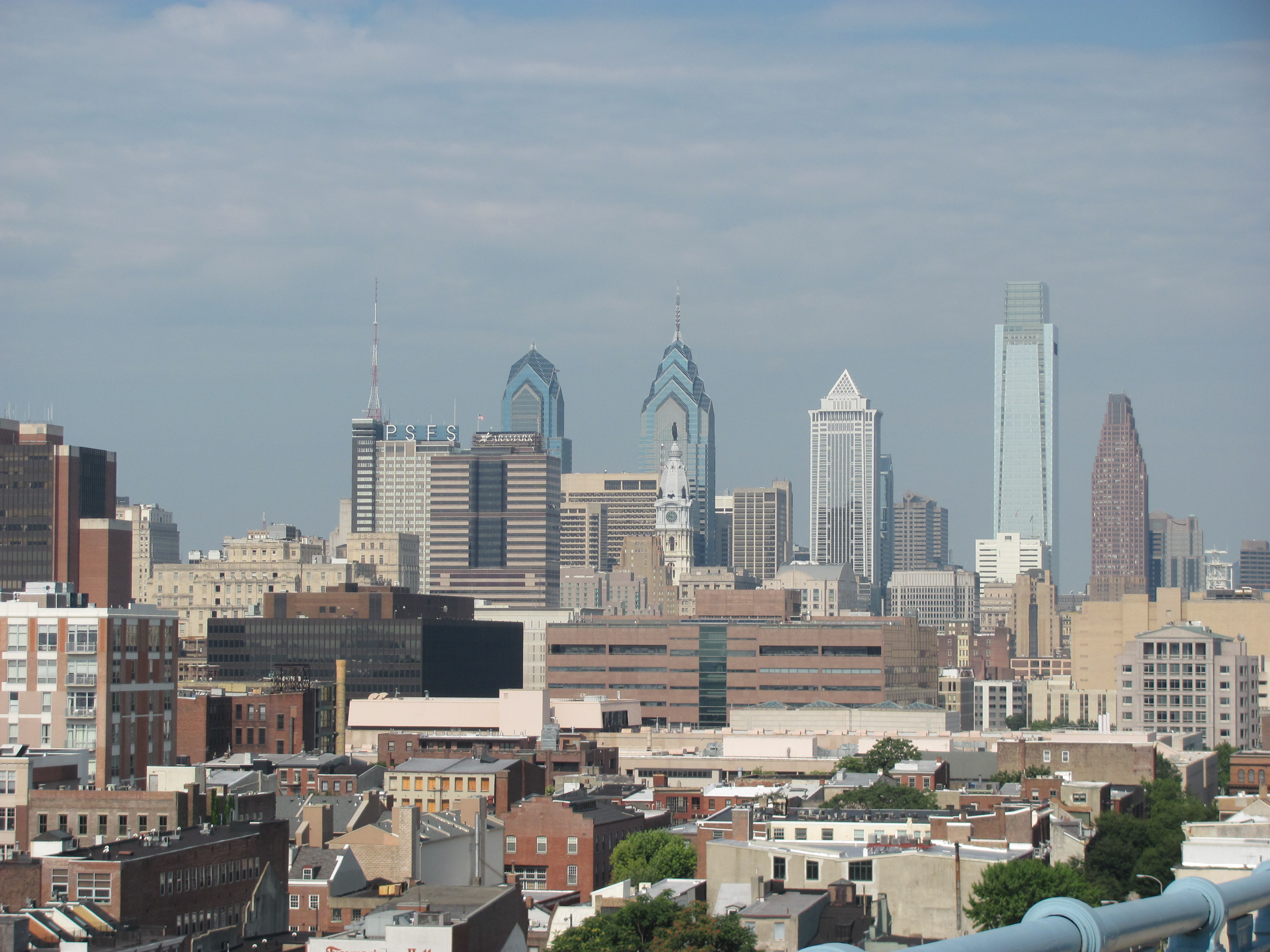 A photograph of downtown Philidelphia, PA taken from the Historic District.